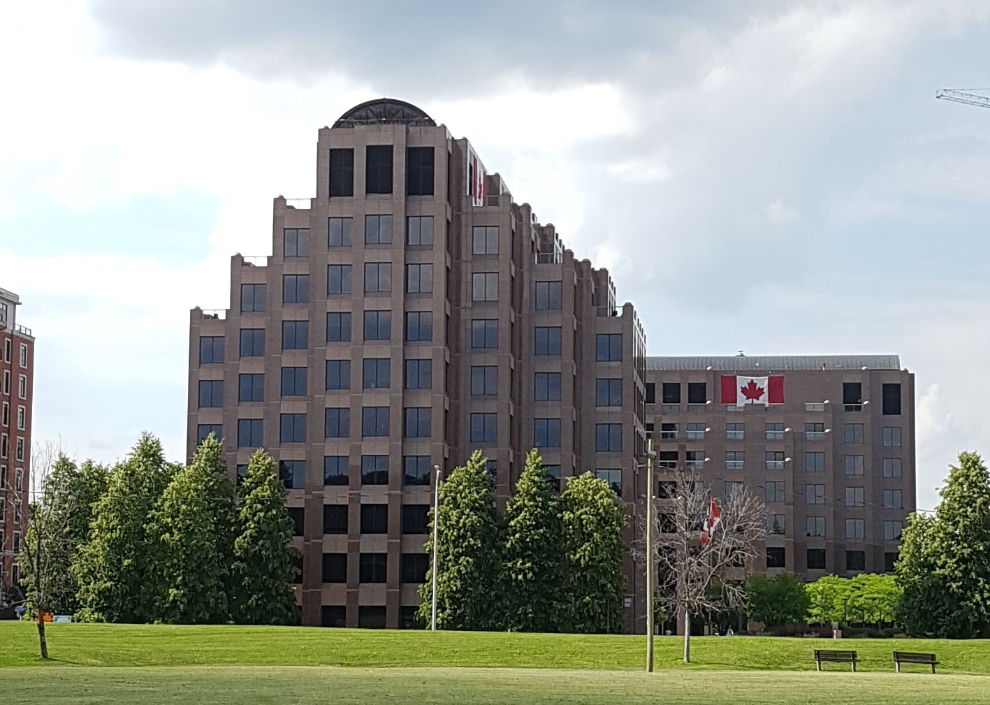 Photo of CMPA headquarters